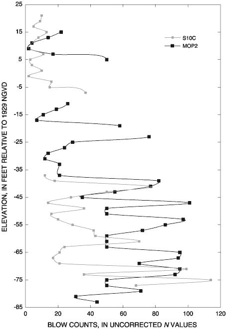 "Standard penetration test N values from the Surficial aquifer at sites S10C (WCA-2A) and MOP2 (ENR), north-central Everglades, south Florida."